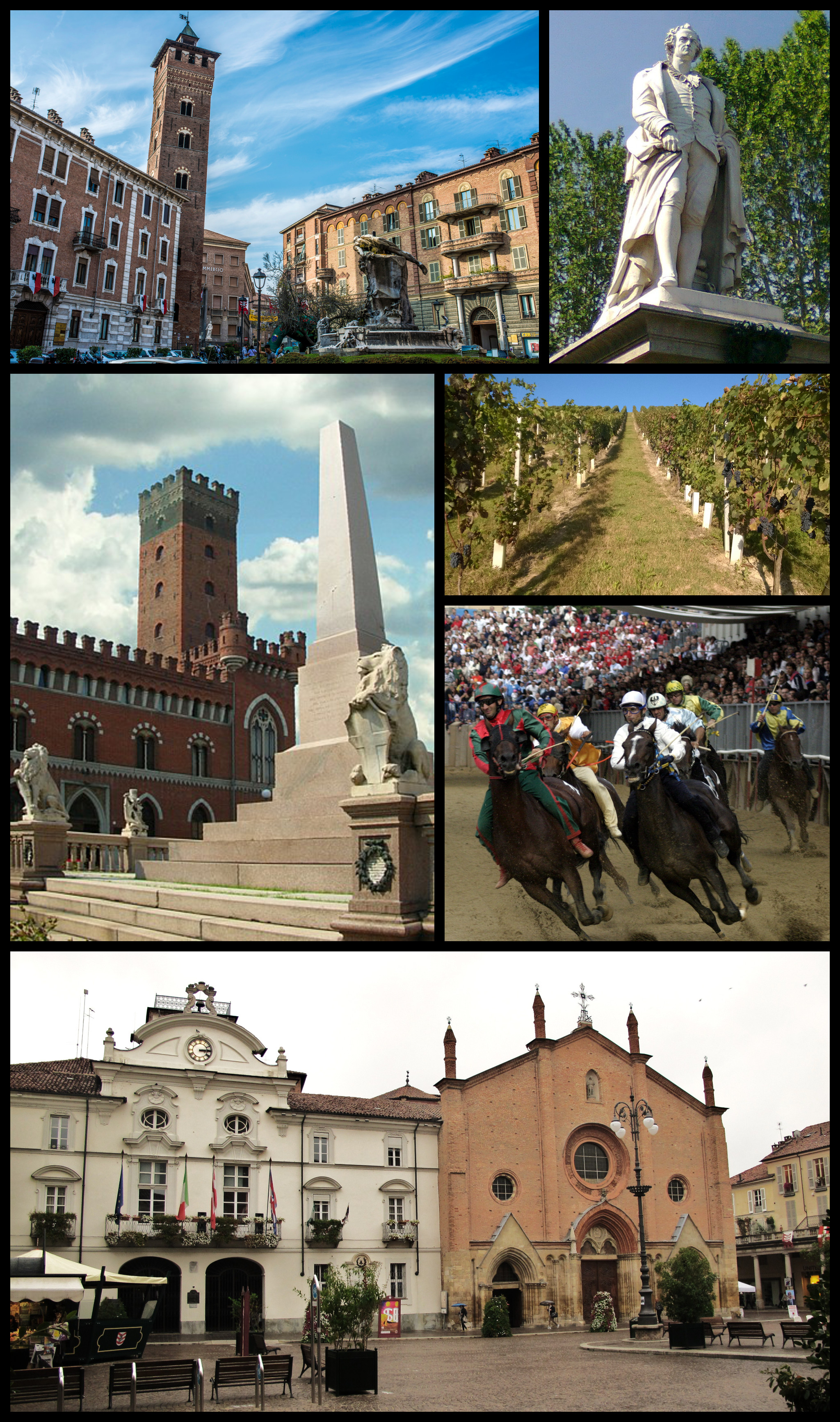 Mosaic of pictures of Asti. From top and left: Piazza Medici (Medici Square) and Troyana Tower; a monument of Vittorio Alfieri in Piazza Alfieri (Alfieri Square); Piazza Roma (Rome Square) and Comentina Tower; vineyards near Asti; the Palio di Asti; town hall and San Secondo church in Piazza San Secondo (San Secondo Square).